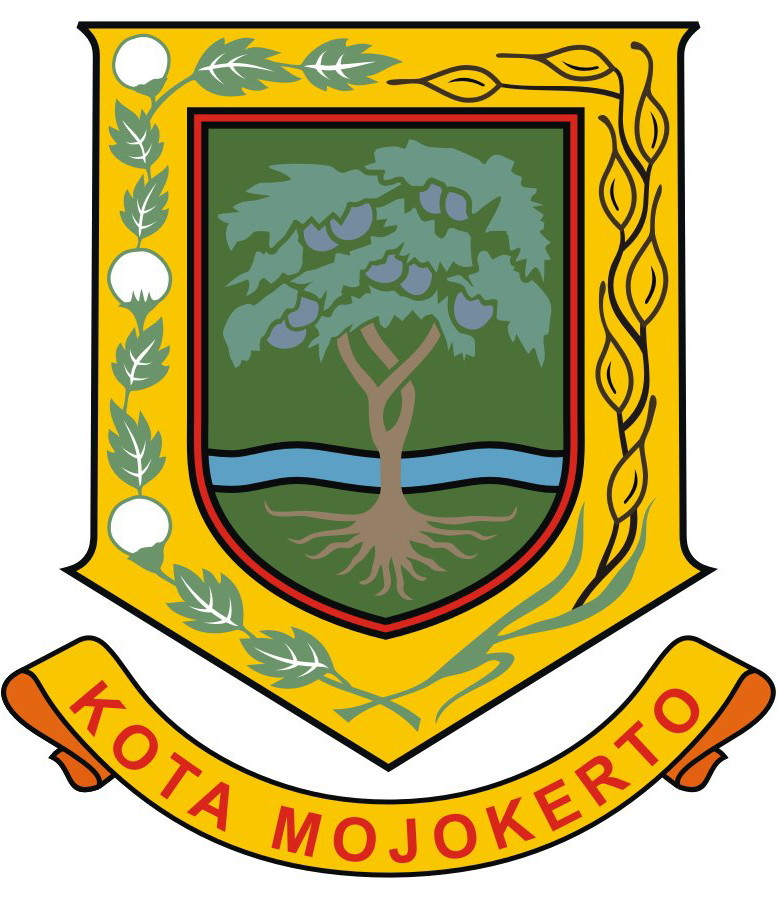 Shield of the city of Mojokerto (Indonesia)